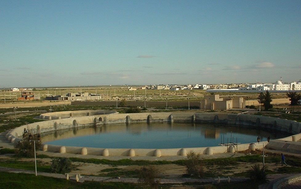 Aghlabid cistern in Kairuan.